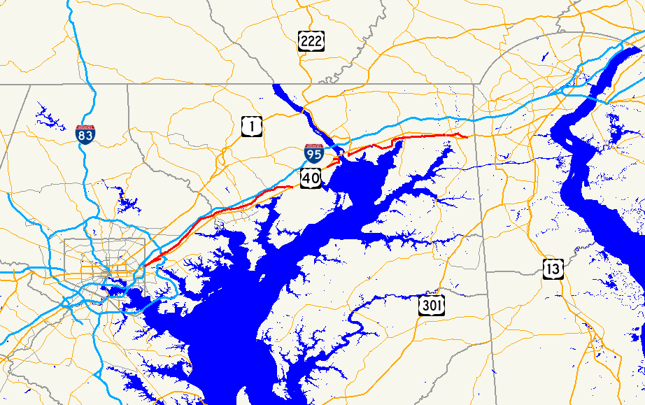 Map of Maryland Route 7